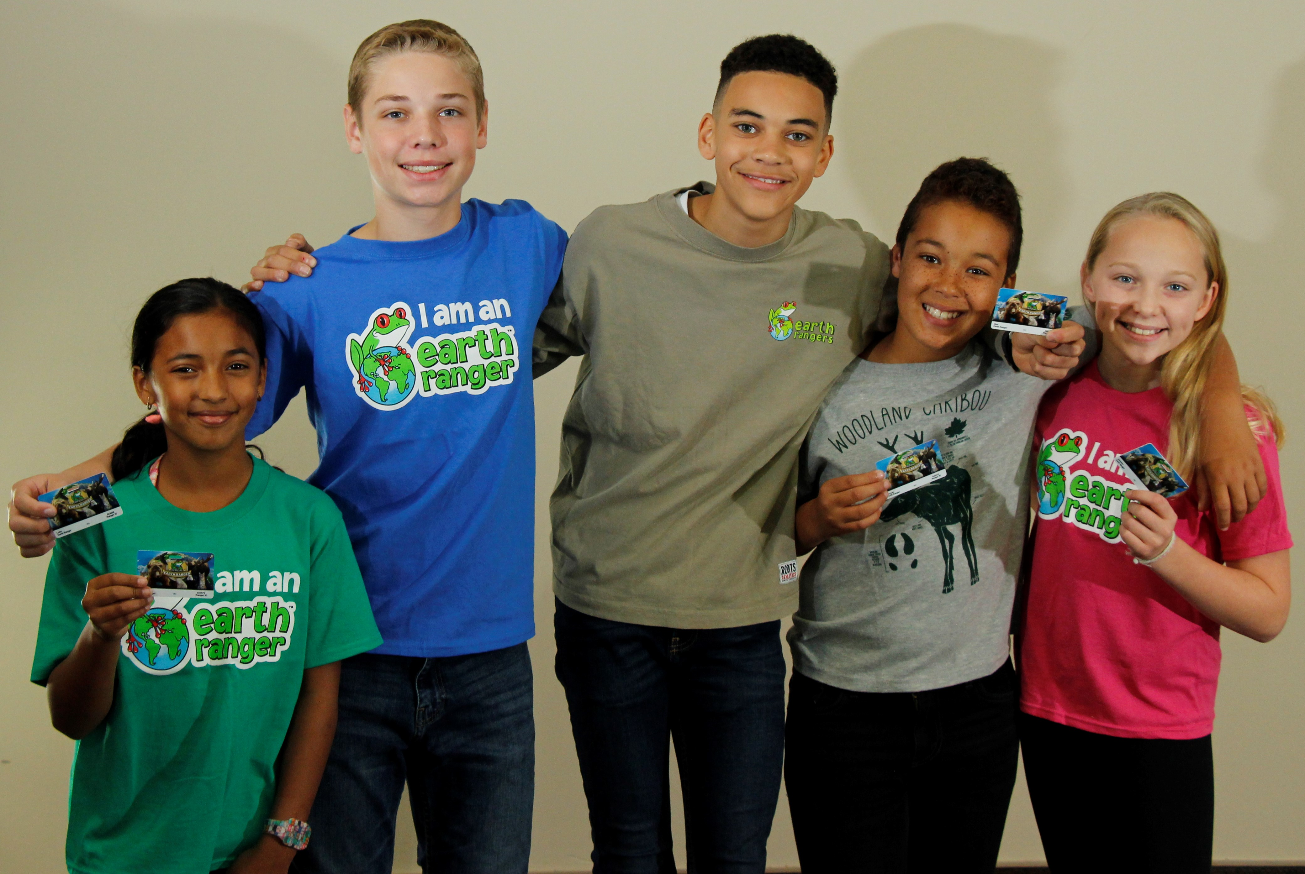 All Earth Rangers get their own Membership cards